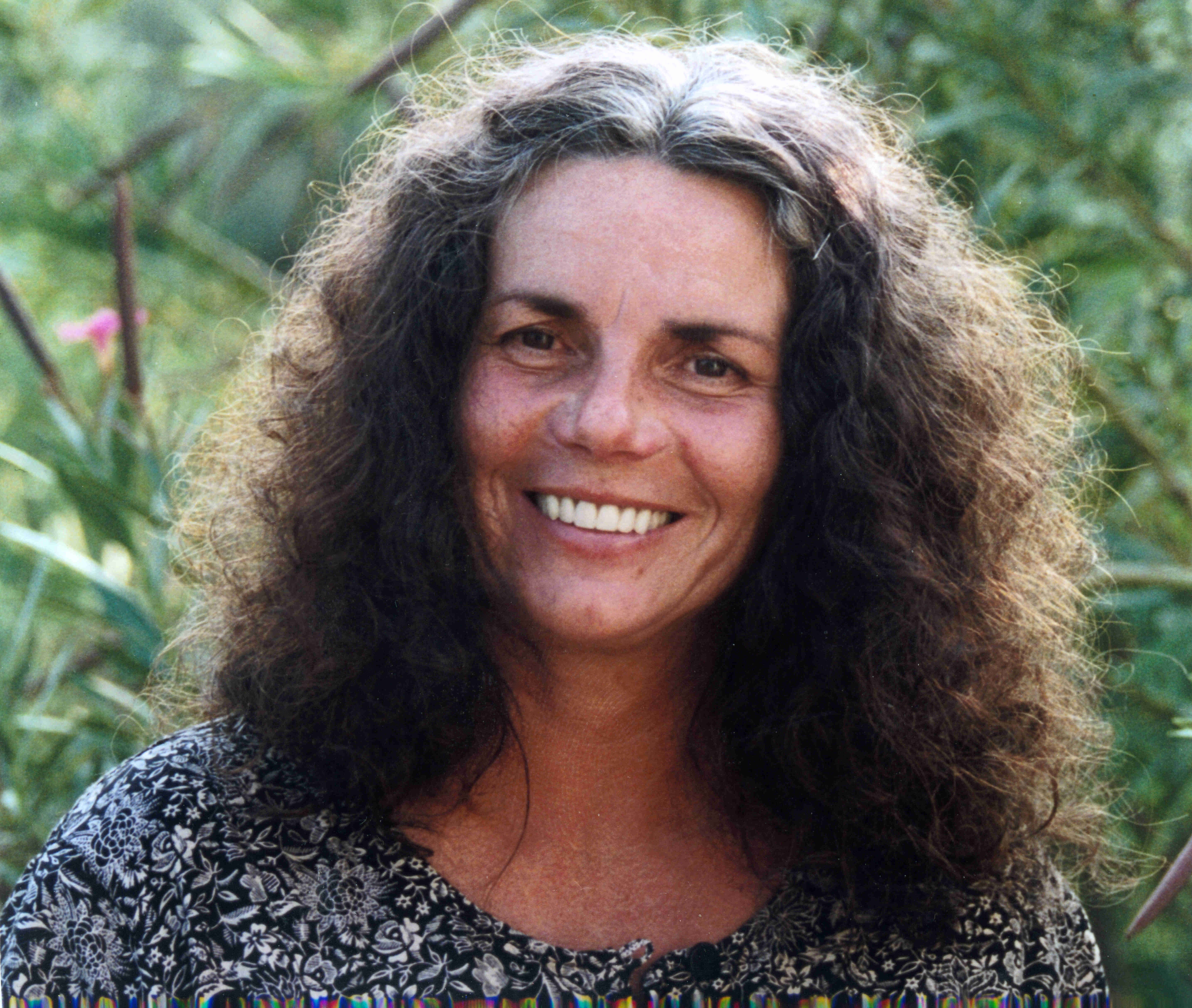 Prof. Dr. phil. Renate Zimmer